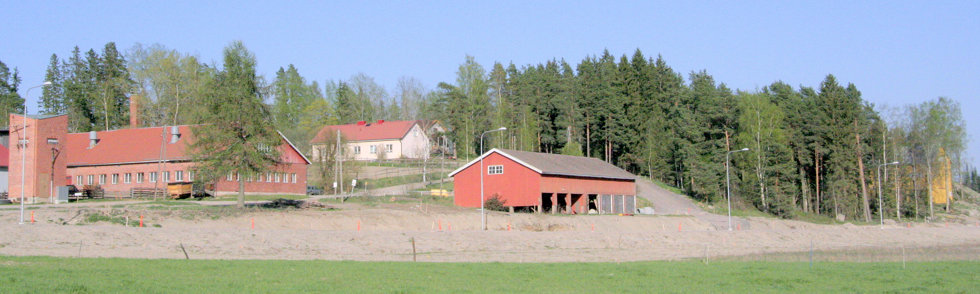 The easternmost corner of The agricultural college of Kujala in the city of Lahti, Finland Buildings: a red brick cow barn, teachers' houses, a combined tractor stall on the ground floor and hay barn on the first floor and yellow grain dryer building Built: in different time since the 1920's Geographical position: N 60° 57.768 E 025° 43.239 (the cow barn) N 60° 57.765 E 025° 43.341 (the nearest teachers' house) N 60° 57.767 E 025° 43.381 (the distant teachers' house) N 60° 57.743 E 025° 43.254 (the combined tractor stall and the hay barn) N 60° 57.701 E 025° 43.411 (the grain dryer) The buildings are either empty or not in the original use as the agricultural college does not serve its original purposes. Photograph: Canon EOS 350D, Sigma Zoom Lens 28-70 mm 1:2.8 EX DG Olli-Jukka Paloneva, PM 3rd May, 2008, _MG_0604.JPG References: The region was considered in the city plan of 1998 as locally culturally valueable. [1]